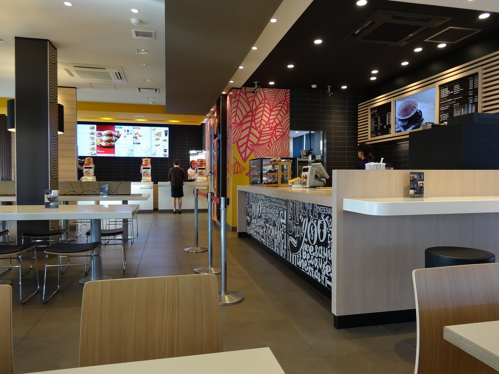 McCafe by Barista in Shikoku, Japan